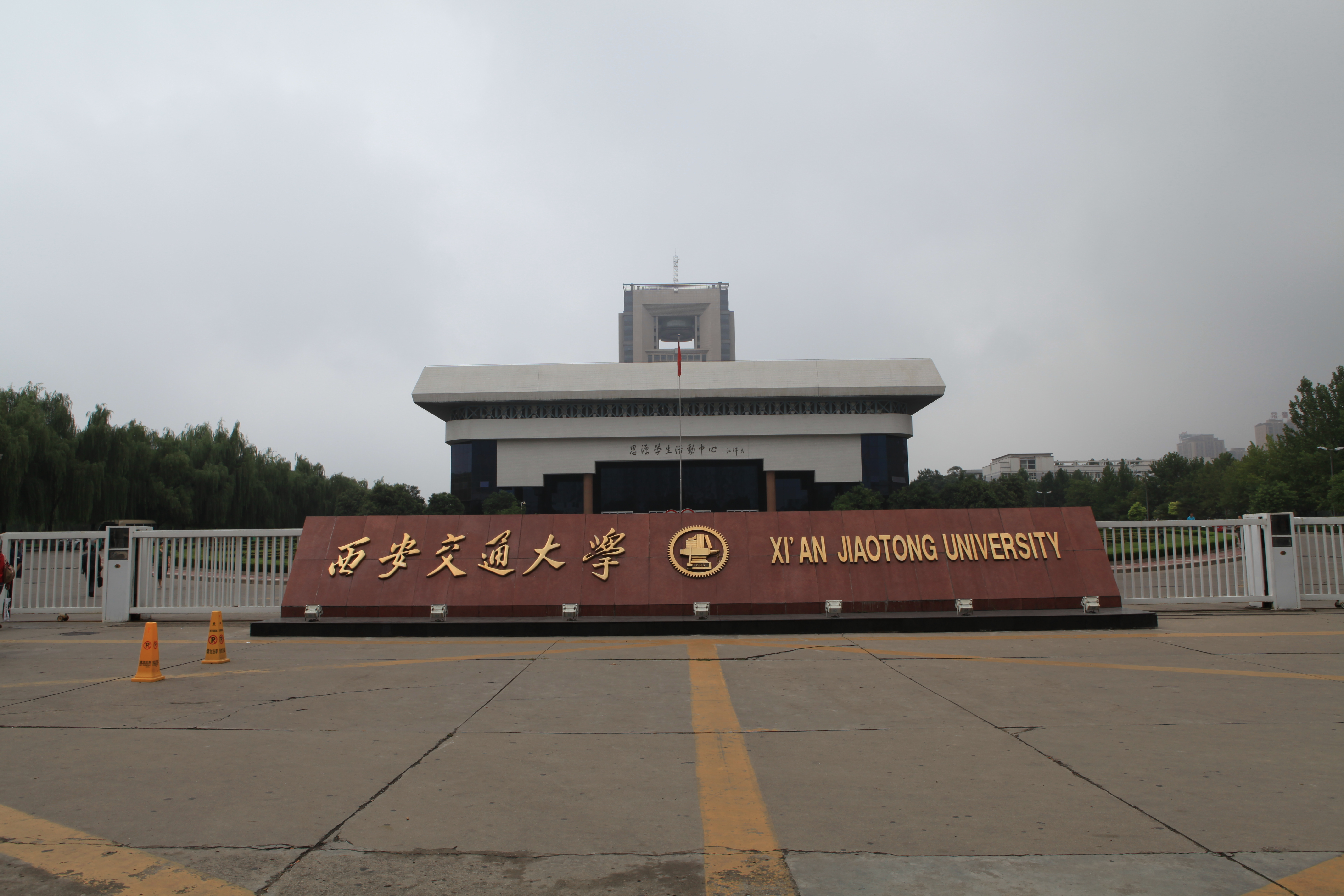 Xi'an Jiao Tong University South Gate